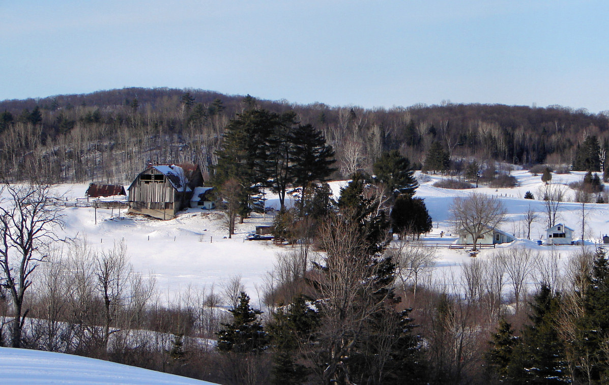 Rural scene in Val-des-Monts, Outaouais, Quebec, Canada